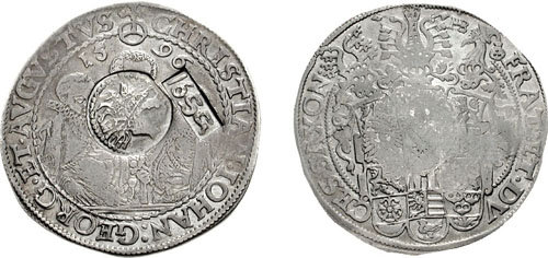 RUSSIA. Alexei Mikhailovich. 1645-1676. AR Yefimok (Jefimok) (28.85 g, 5h). Dated 1655. A taler of Christian II, Johann Georg and August of Saxony, dated 1596, countermarked on obverse with two punches: horseman right with monogram below in dotted circle (Type II) and date in plain rectangle (Type I). Coin: Davenport 9820; Countermarks: cf. Efimki 1078 (date unlisted); Kaim I p. 126-129; KM -. Coin VF, c/ms good VF, toned. ($750)